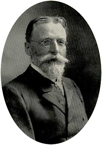 Theodor Escherich (1857–1911)